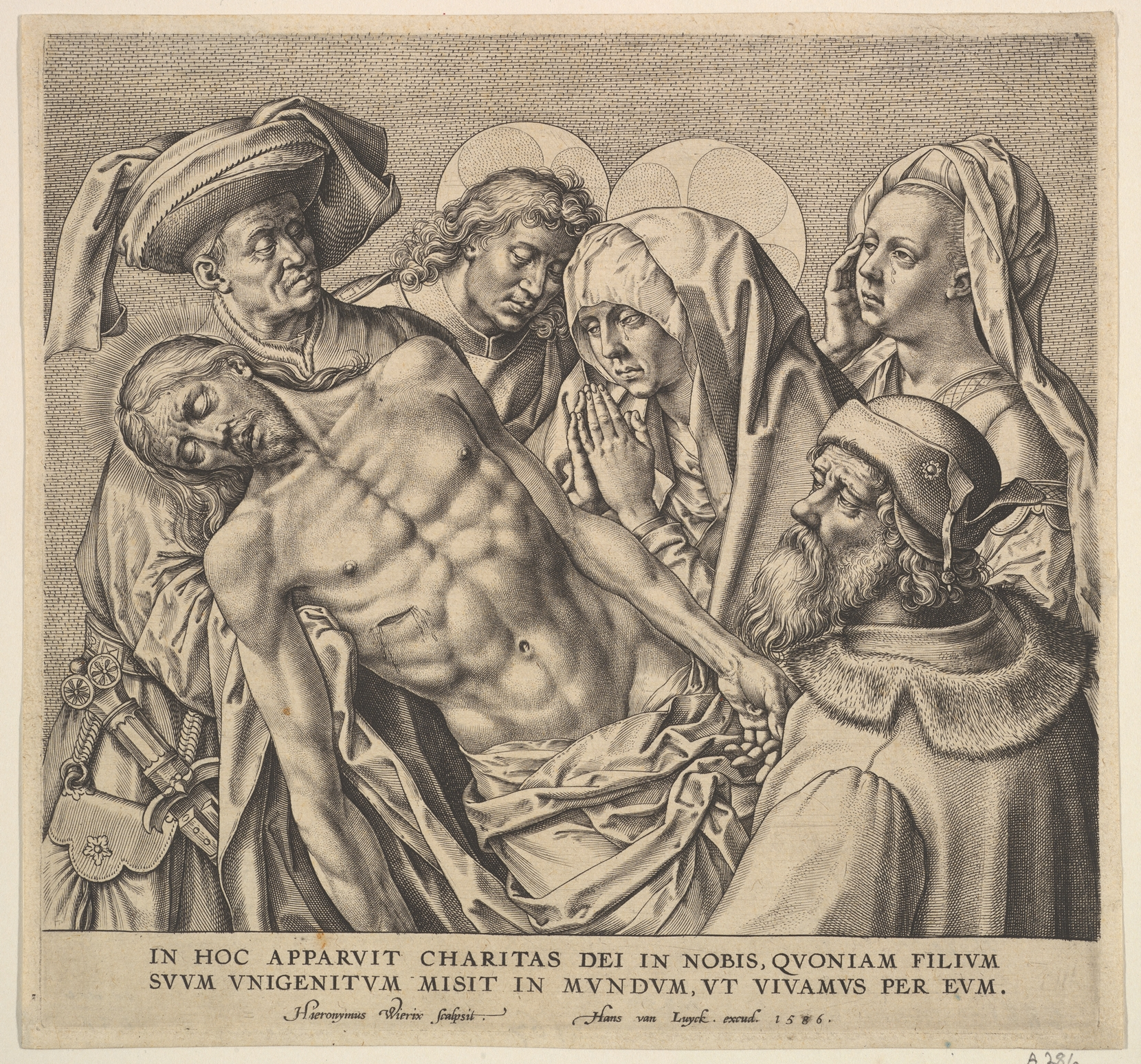 Prints; Prints